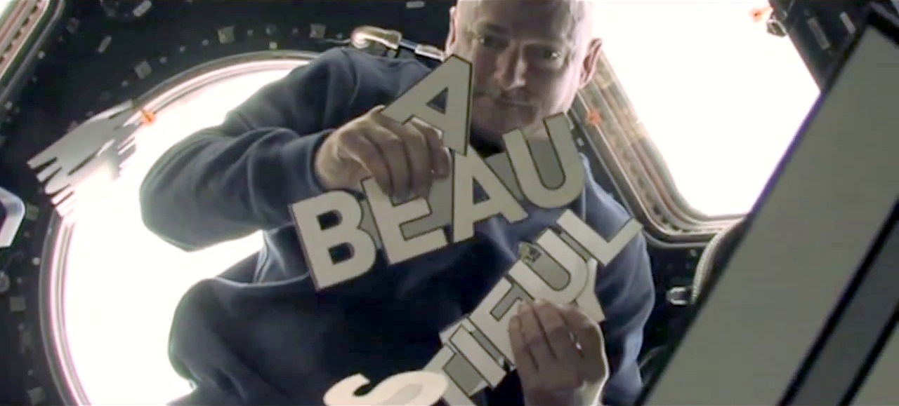 Screenshot from a video of American astronaut Mark E. Kelly inside the International Space Station. The video was shown by rock band U2 at concerts on the U2 360° Tour, prior to the song "Beautiful Day".